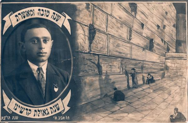 A card sent on the occasion of the Jewish New Year 5691 (September 1930) from Tel Aviv to Volhynia. The card shows a drawing of the Western Wall in Jerusalem, and a photograph of the sender. The Hebrew inscriptions say: "A Good Happy New Year, the year of the redemption of our sanctuaries, Tel Aviv E.Y. (=Eretz Yisrael), year 5731